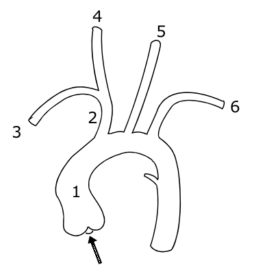 Scetch showing Aorta ascendens, aortic arch and Aorta descendens with vessels leaving. My own work, Kjetil Lenes. Legend: 1: Aorta ascendens 2: Truncus brachiocephalicus 3: Arteria subclavia dextra 4: Arteria carotis communis dextra 5. Arteria carotis communis sinistra 6: Arteria subclavia sinistra.